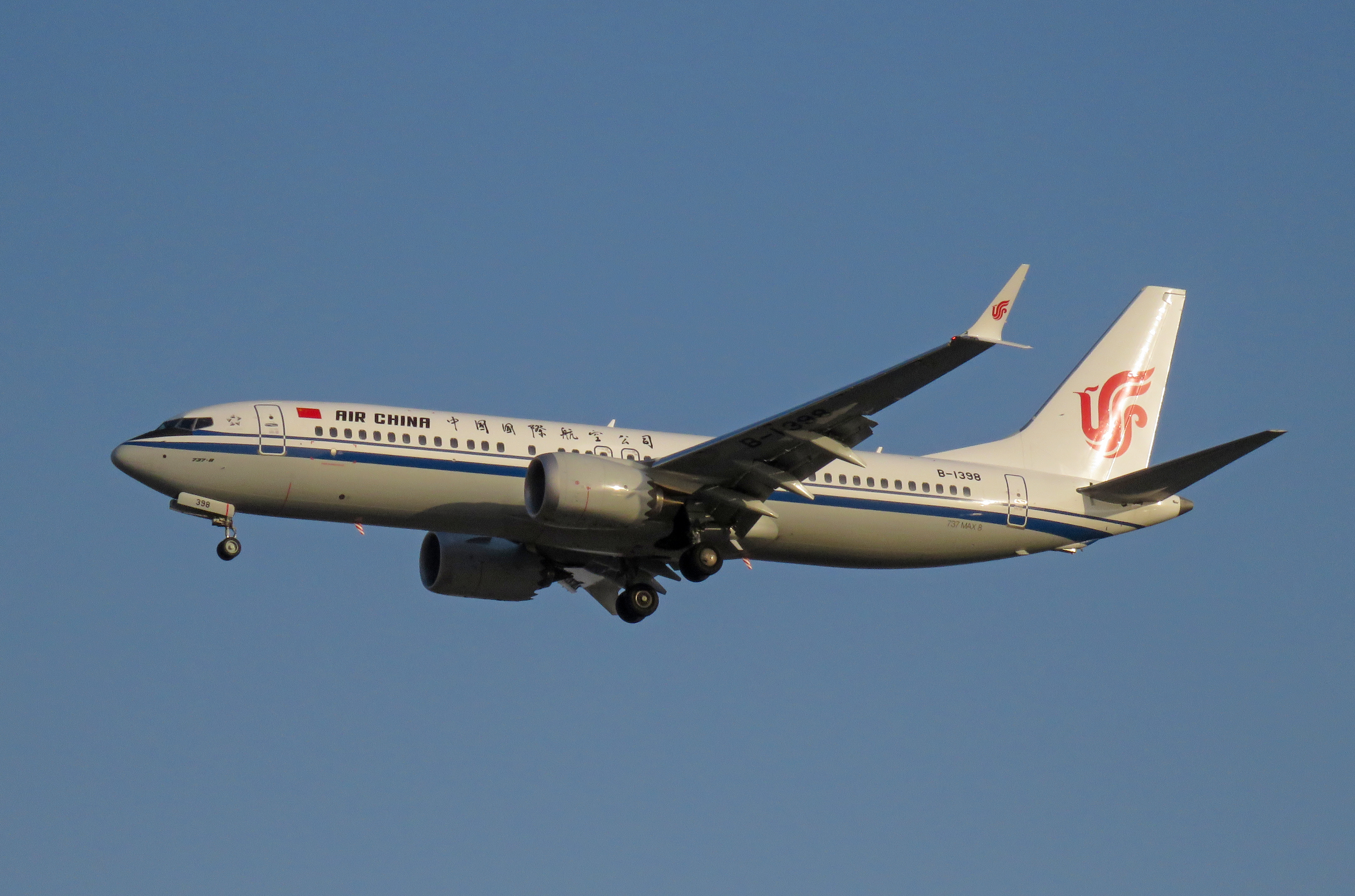 Air China 1112 from Hohhot. How many MAXes are there in Air China fleet?